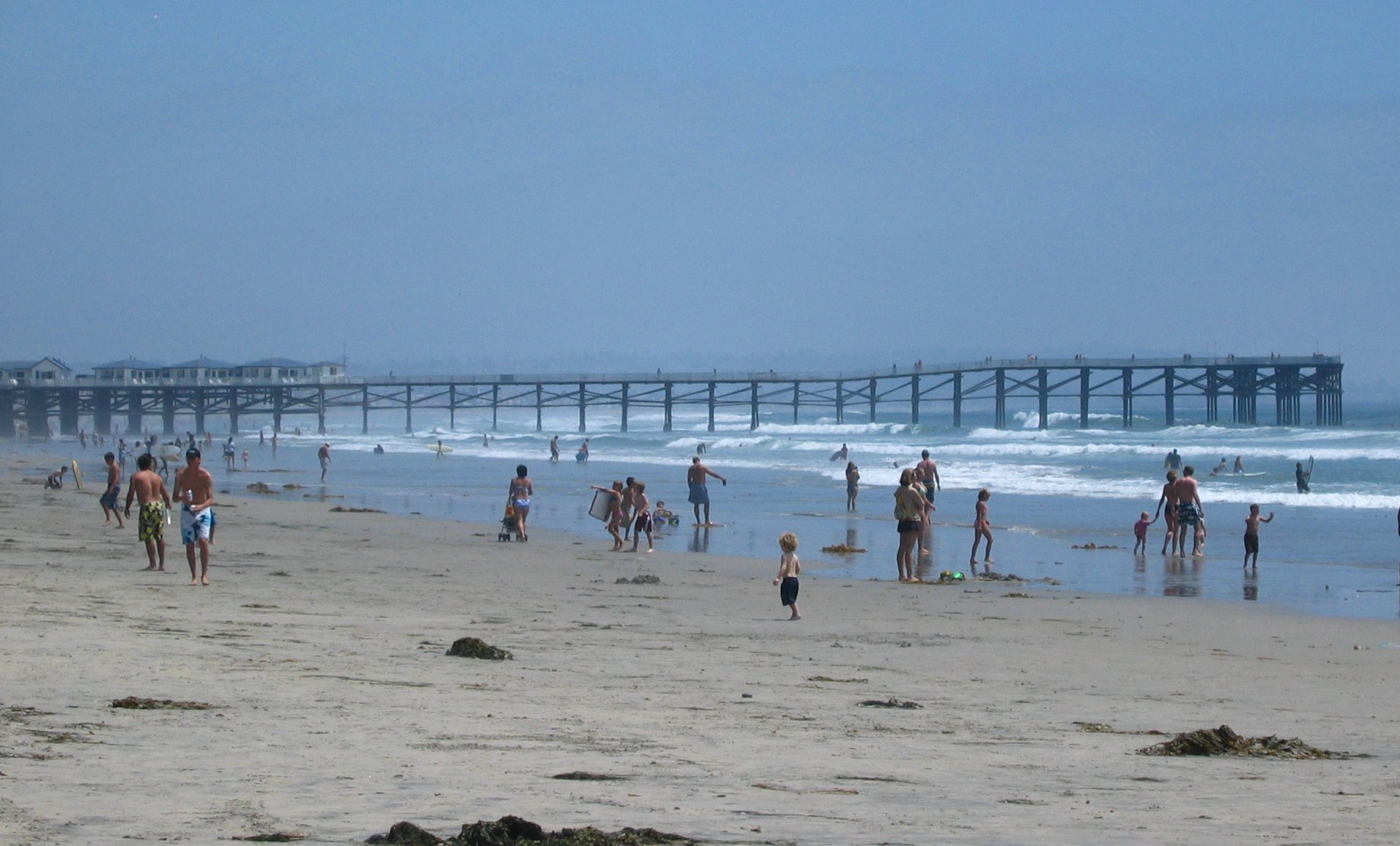 Crystal Pier, Pacific Beach, San Diego, California